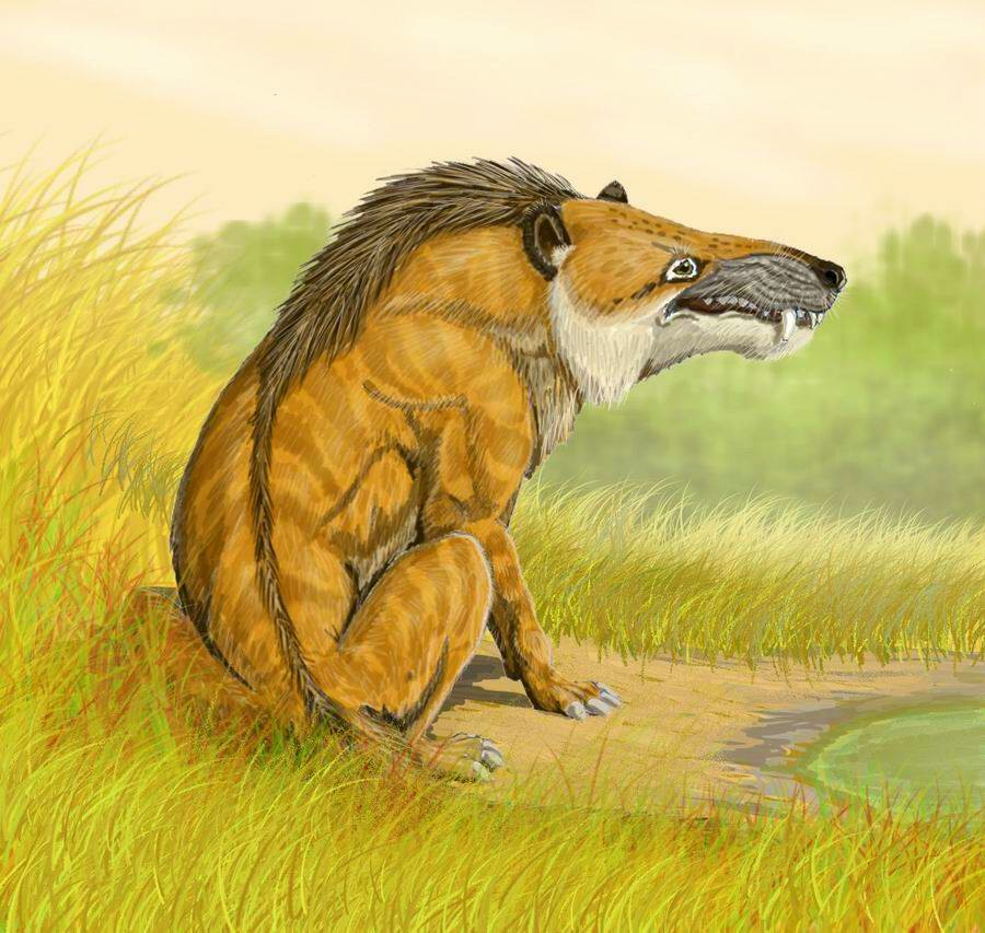 Andrewsarchus mongoliensis from the Late Eocene of Central Asia was a large cetancodontamorph ungulate, related to hippos, entelodonts and whales. (Original description in the English Wikipedia: "Andrewsarchus, autor - Bogdanov,2006.")